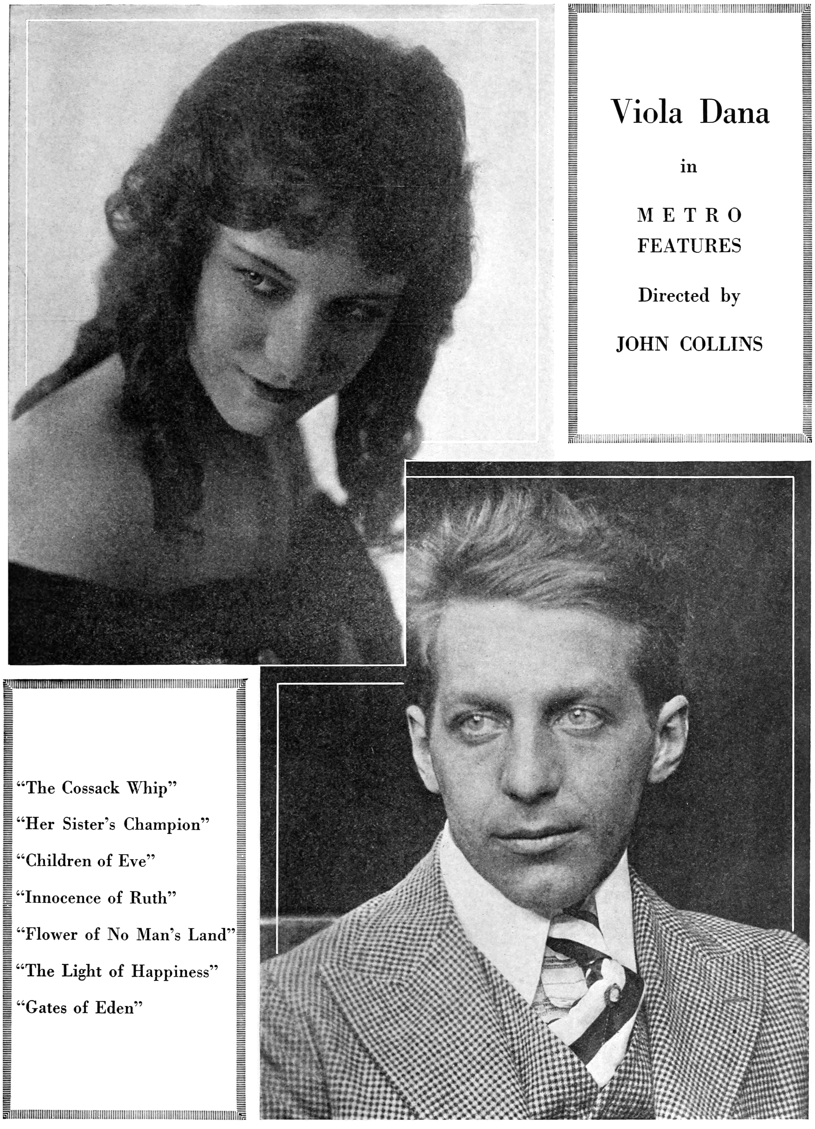 Title: Motion Picture Studio Directory and Trade Annual (1916) Year: 1916 (1910s) Authors: Motion Picture News, Inc. Subjects: Motion Pictures Film Industry Yearbook nyarc-museumofmodernart Publisher: New York, Motion Picture News, Inc. Text Appearing Before Image: MITCHELL LEWIS HEAVIES—METRO WILLIAM B. DAVIDSON Leading Man a iiiciiiimiiiniiniinui miiiiiimiiniiiimiiiiiiimiiimiiiiii iiiiiiiiiiiiiiiiiimiiniiimiinmmiiiiiiiiniiniiiiiiimiiimiinmmiimiiimimiiiiiiimiiiiiiiiiiii.^ an Be sure to mention MOTION PICTURE NEWS when writing to advertisers iinnrararaiimiiraiiiiiiiimiiimimraniiminmniiimn? October 21, 1916 STUDIO DIRECTORY 215 Text Appearing After Image: ; The Cossack Whip J Her Sisters Champion ; Children of Eve 1 Innocence of Rnth ; Flower of No Mans Land ■ The Light of Happiness I Gates of Eden lllillllillllllllllllllllllllllllllllllllllllllllllll!IIIIIH Be sure to mention MOTION PICTURE NEWS when writing to advertisers 216 MOTION PICTURE NEWS Vol. XIV. No. 16. Section 2 ■.:;i:::.li:!)!,;i ■:: !. l ,. :. i. in iir:.!ii:::.!;h;!;ii!iiiiii!iiiiii!ii!:;iiii!iiii!ii;1!:i(!iilii!,:iiiiiii,;ii-_